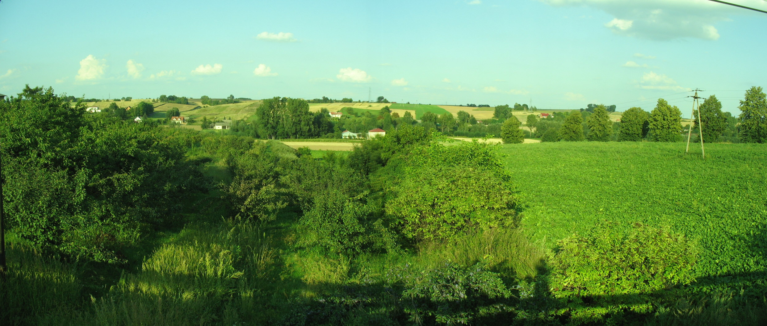 Opatowka's valley